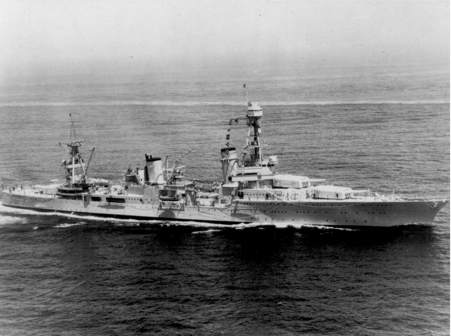 USS Northhampton (CA-26), starboard beam underway, August 23 1935.